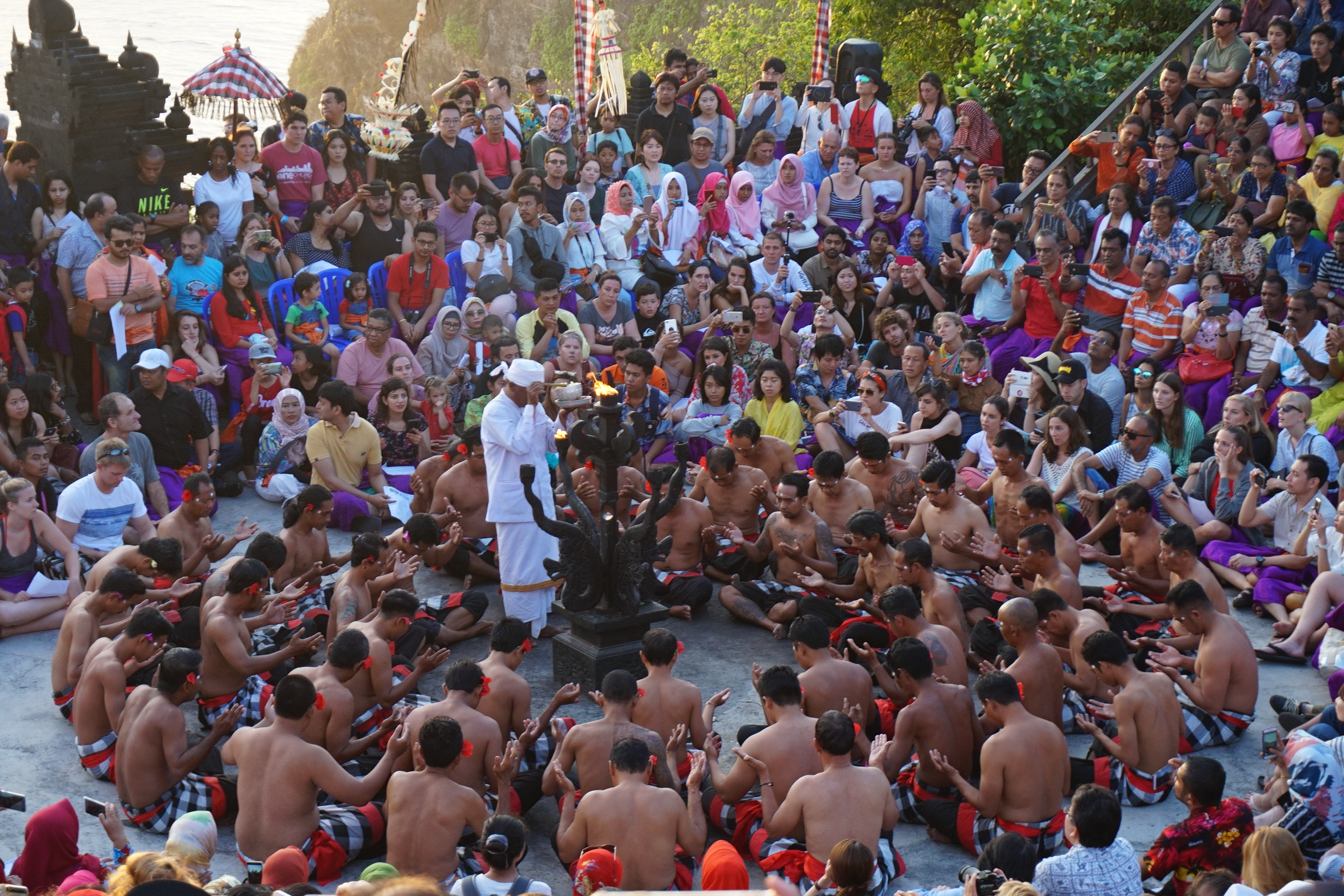 Ramayana Kecak Dancers were blessed and purified by the Hindu Priest before performing at Uluwatu Temple's Amphitheater, Bali